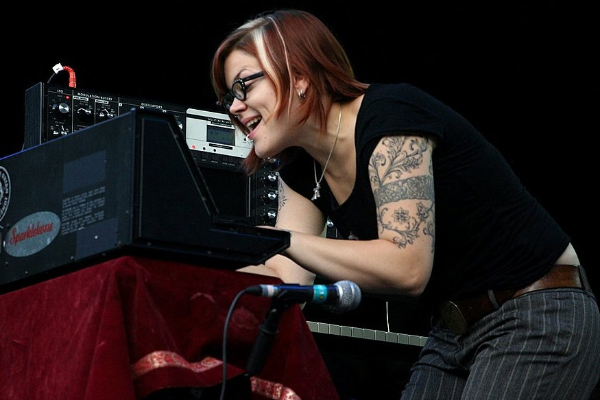 Zia McCabe of The Dandy Warhols at Frequency festival 2007. Photo by Filip Drabek.